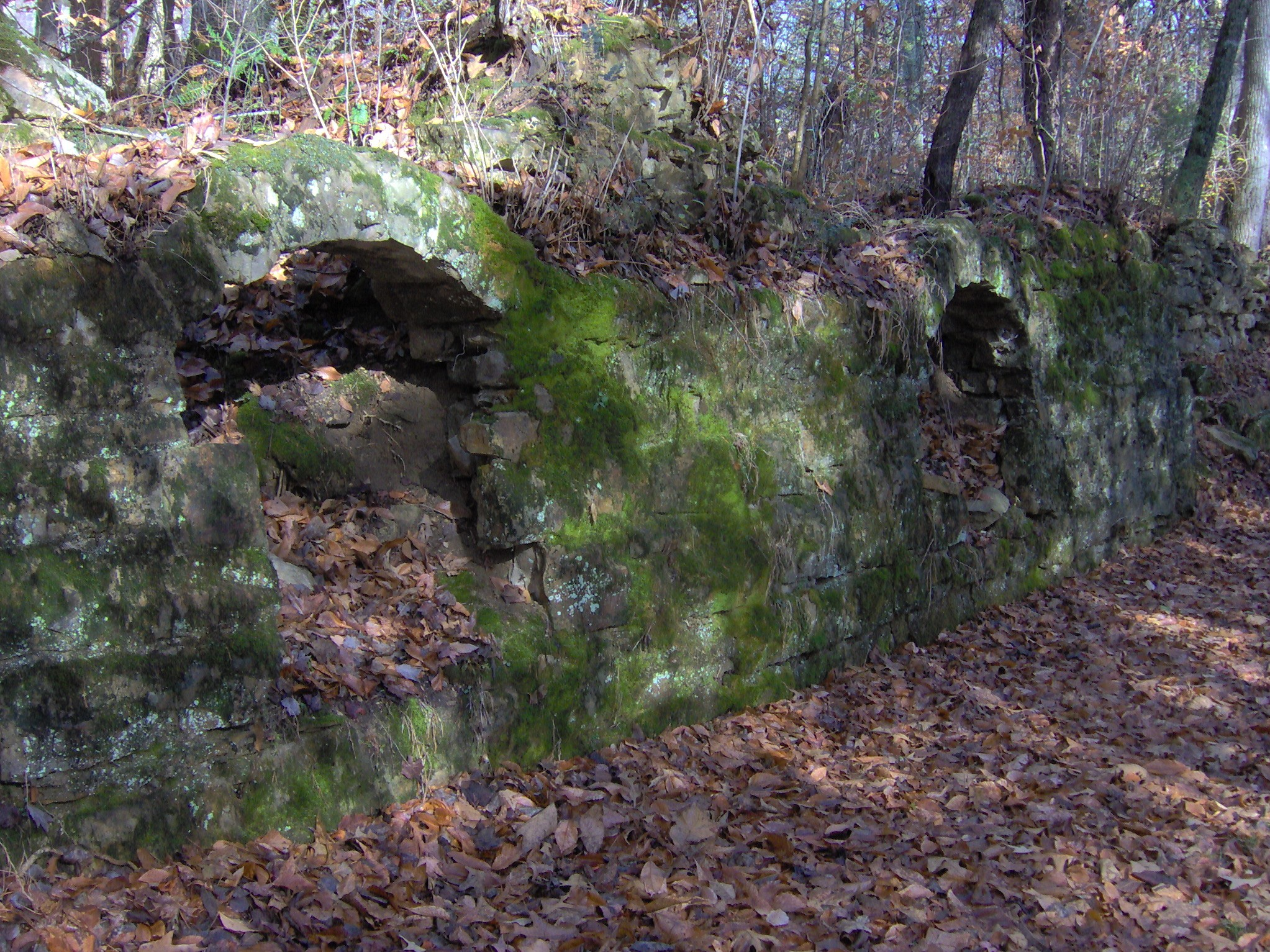 The ruins of early 20th-century coke ovens in Dunlap, Tennessee, USA.